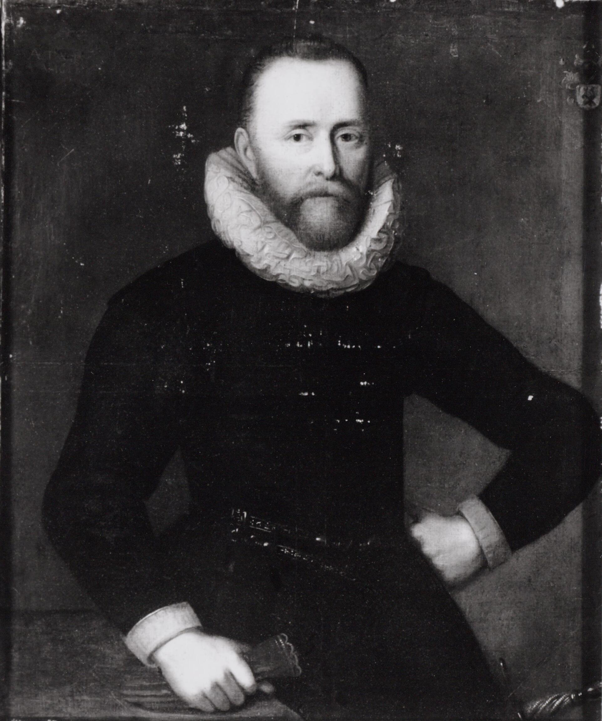 Portrait of a man, possibly Karel Vijgh